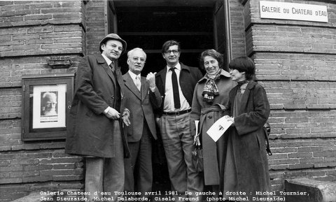 Galerie Château d'eau Toulouse. De gauche à droite : Michel Tournier, Jean Dieuzaide, Michel Delaborde, Gisèle Freund (photo Michel Dieuzaide)